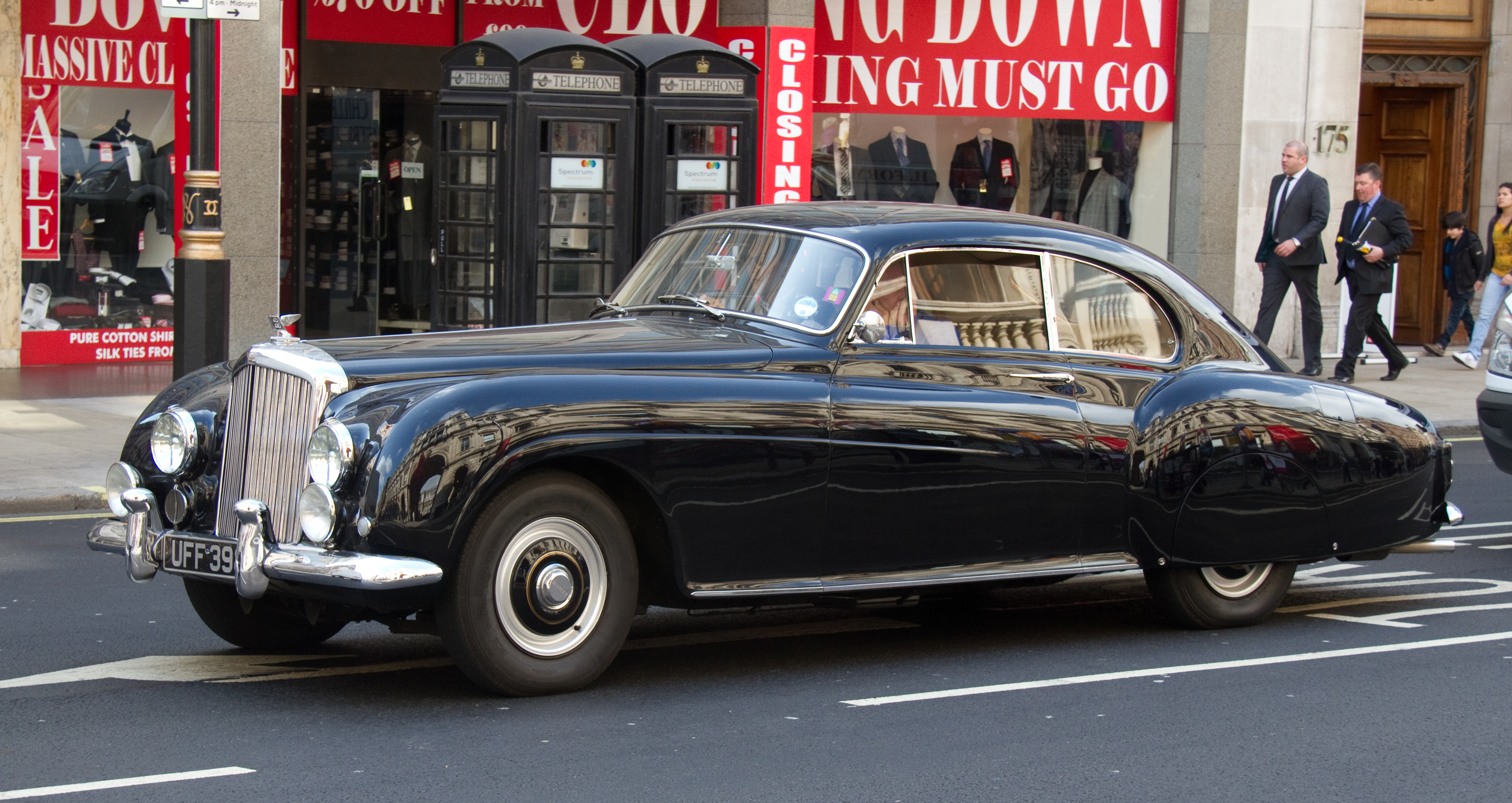 Bentley R-type Continental (DVLA) first reg 12 April 1955, 4887cc